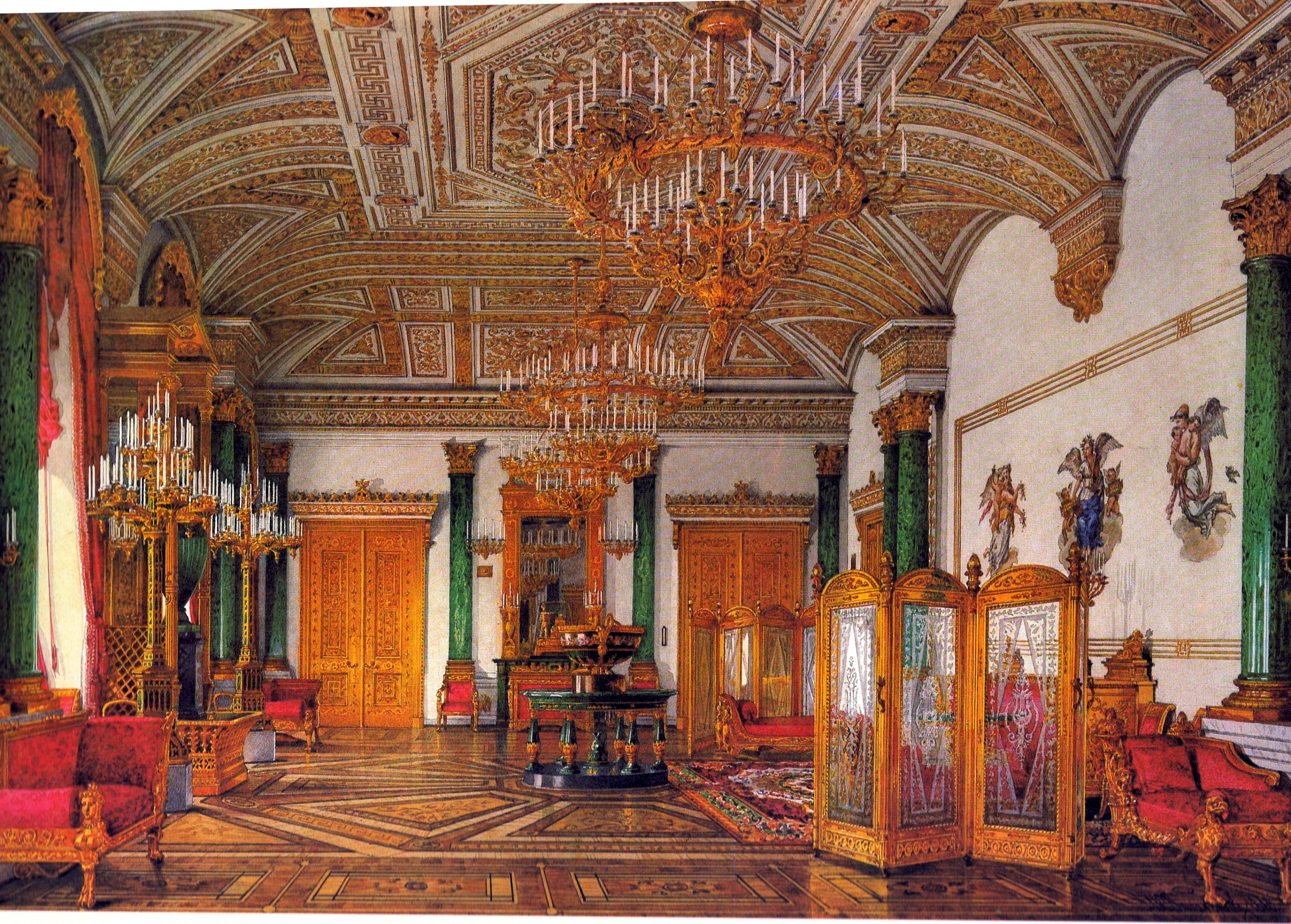 Interiors of the Winter Palace. The Malachite Room.